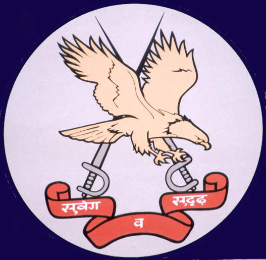 AAC insignia